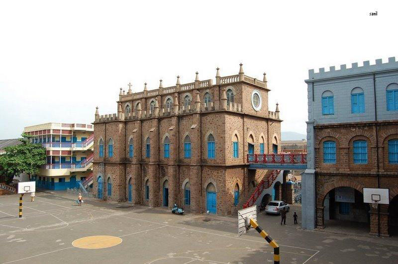 St Aloysius Anglo Indian High School (SAS) was established in the year 1847 in Visakhapatnam, Andhra Pradesh. This school is one of the oldest schools in the whole india. SAS boasts of the best alumni like bharat ratna C.V. Raman. . One more is St Joseph's Girls' high school